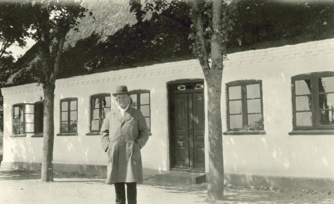 Carl Nielsen outside his childhood house at Nørre Lyndelse, Funen, Denmark in 1927